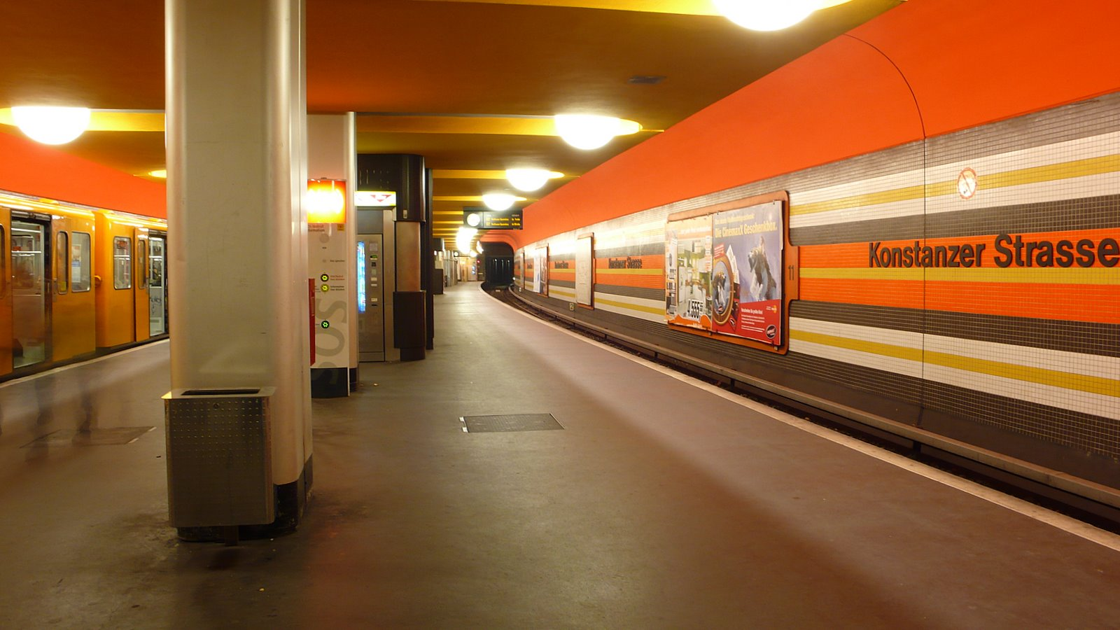 Konstanzerstrasse subway station berlin